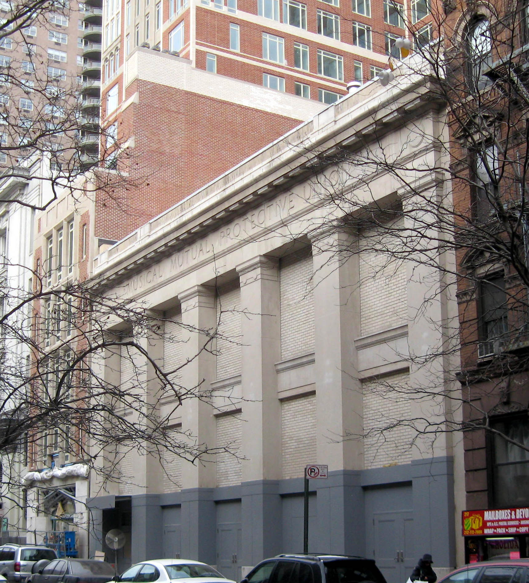 Looking northwest across 85th Street at former union hall of Musicians Mutual Protective Union on a cloudy afternoon